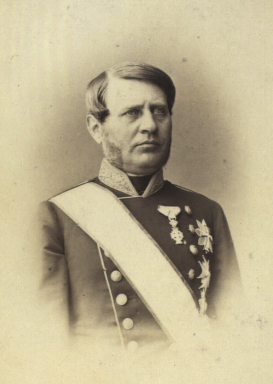 Wilhelm Carl Eppingen Sponneck (1815-1888), Danish count, politician, and Finance Minister, MP